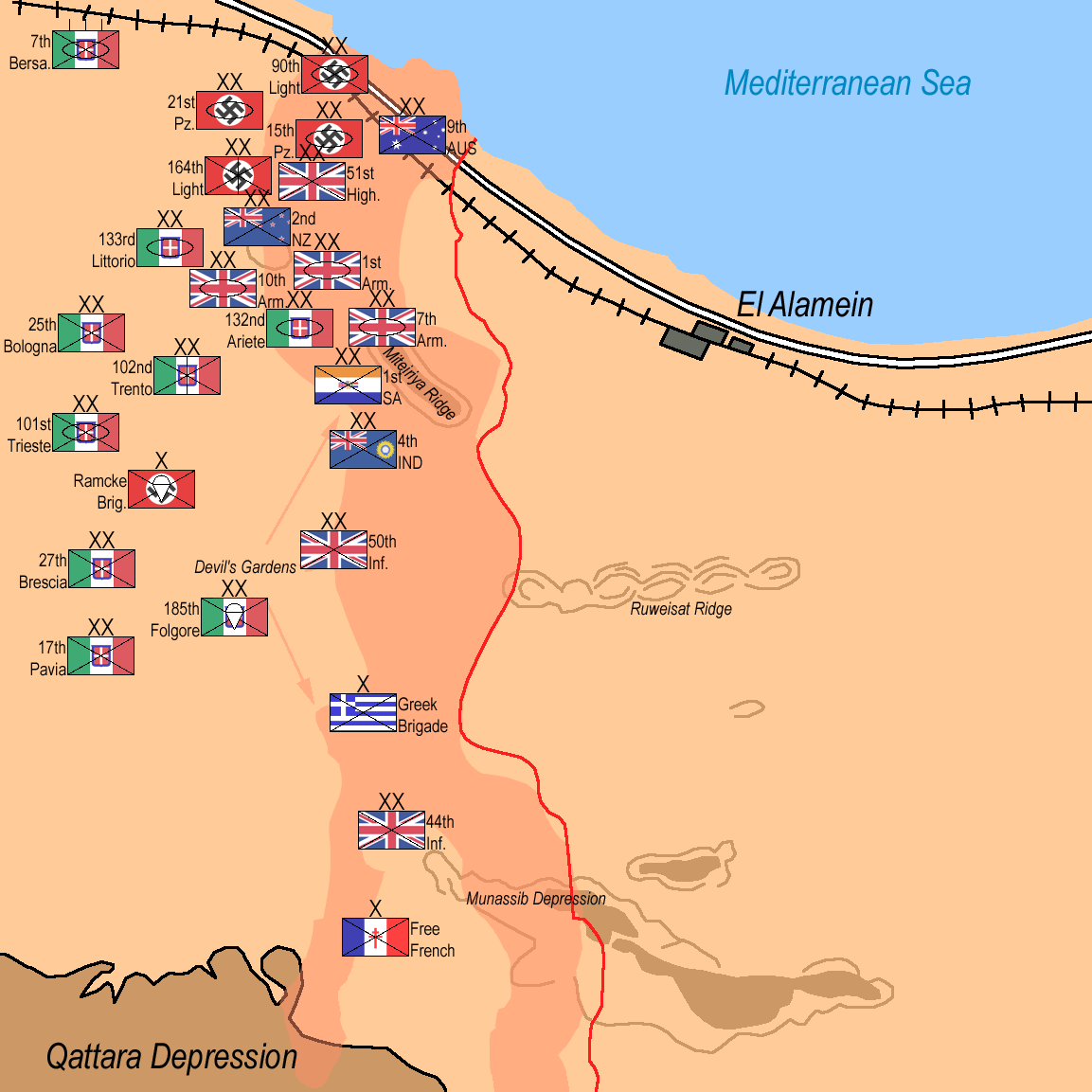 Second Battle of El Alamein: Axis units halt their retreat on order from Adolf Hitler: November 3rd, 1942.